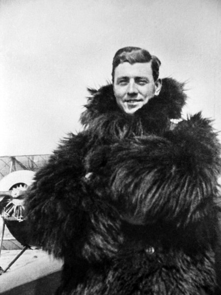 Informal portrait of Major Roderick Stanley (Stan) Dallas, No 40 Squadron, RAF, standing in front of his aircraft and wearing a large fur coat. Born in Queensland, Dallas sailed to England at the start of the First World War, seeking flight training and after being accepted into the Royal Naval Air Service (RNAS), was commissioned as a Flight Sub Lieutenant, joining No 1 Squadron in December 1915. During his service on the Western Front, in 1916 and 1917, he proved himself as an exceptional pilot and on 14 June 1917 he was made Commanding Officer of his Squadron. In 1918 after the amalgamation of the two air services to form the Royal Air Force (RAF), he was transferred to 40 Squadron RAF and held the rank of Major. While on a reconnaissance operation, Dallas was struck with 3 bullets to his leg, after his safe return to base he was awarded the Distinguished Service Order (DSO) having already been awarded the Distinguished Service Cross (DSC) and Bar and the French award, the Croix de Guerre and Palm. Major Dallas was killed in action on 1 June 1918, aged 26, while engaged in combat with Fokker Triplanes over France and is buried at Pérnes British Cemetery, Pas de Calais, France. Major Dallas is officially credited with shooting down thirty nine enemy aircraft.